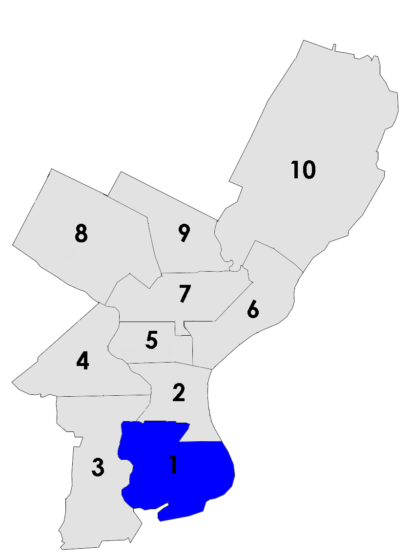 Philadelphia city council districts, highlighting the special election in the 1st district in 1957